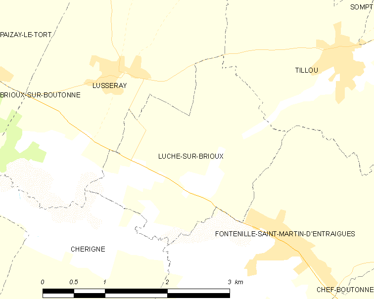 Map of French municipality Luché-sur-Brioux